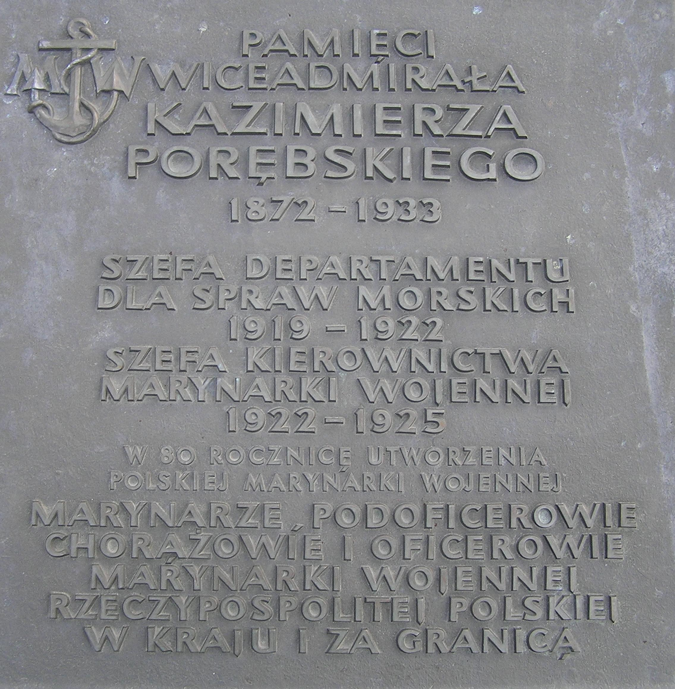 Commemorative plaque for RAdm Kazmierz Porębski on the Polish Navy Cemetery in Gdynia.